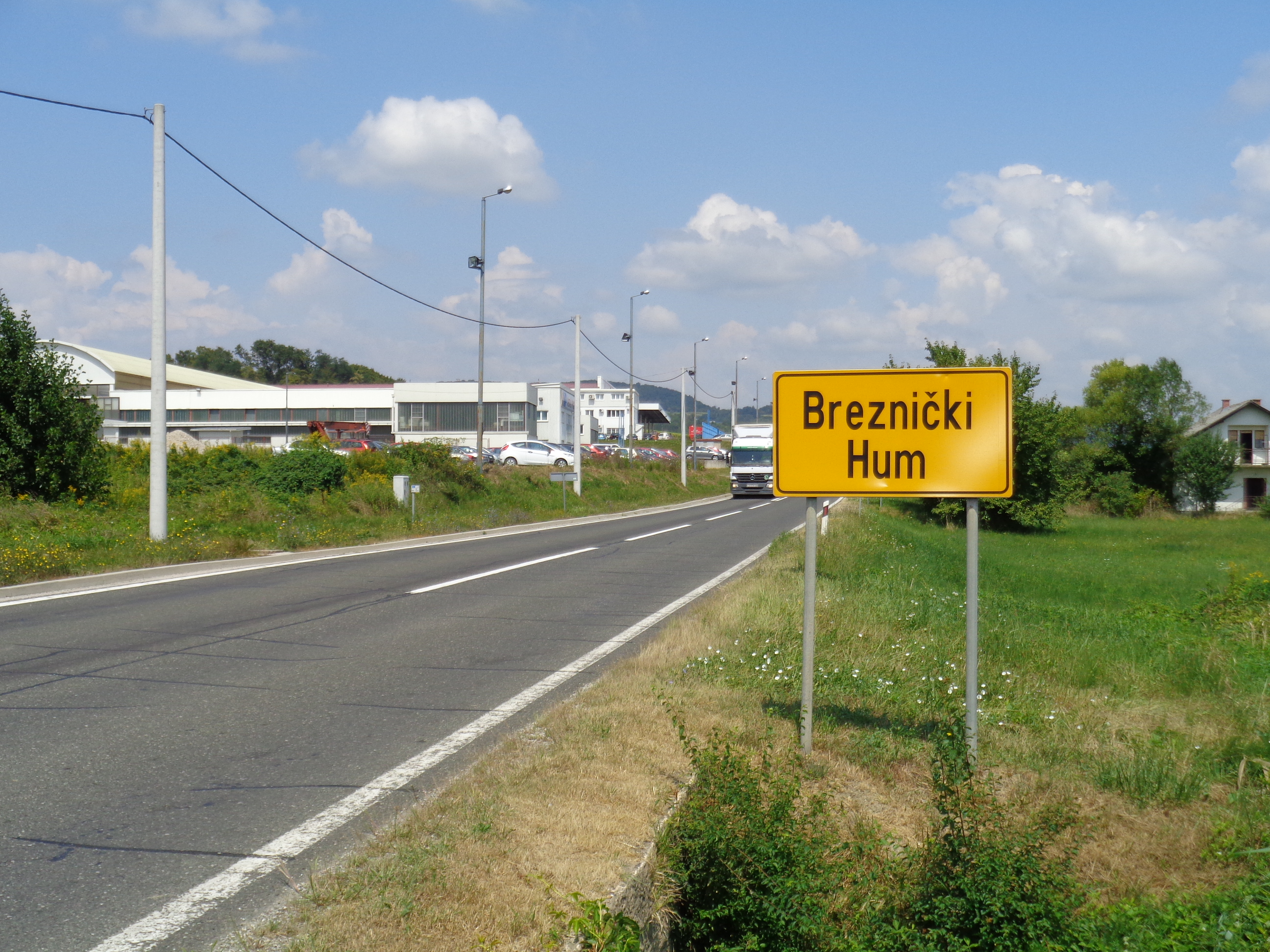 Breznički Hum, Varaždin County, Croatia - place name road sign